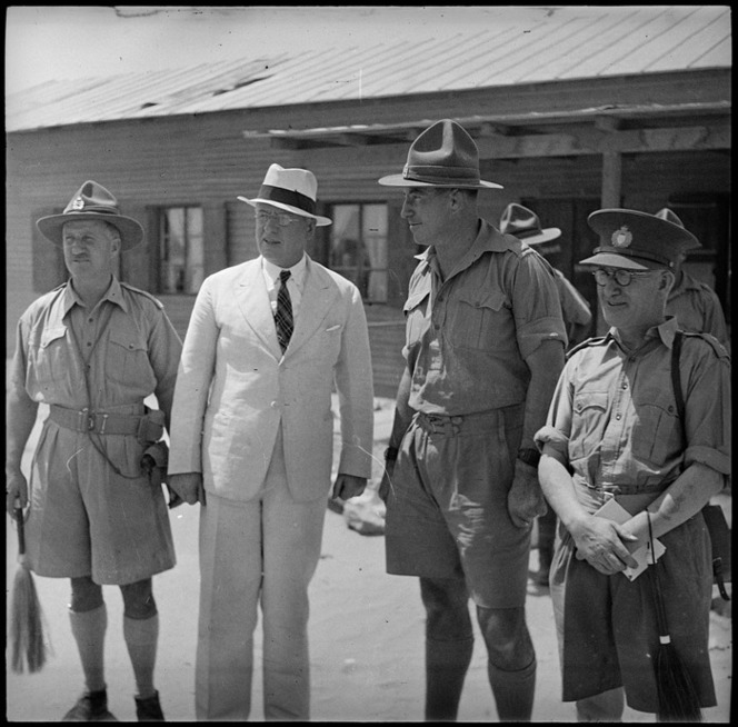 Prime Minister Peter Fraser with Lofty Blomfield and Colonel Waite, Maadi Camp, Egypt. New Zealand. Department of Internal Affairs. War History Branch :Photographs relating to World War 1914-1918, World War 1939-1945, occupation of Japan, Korean War, and Malayan Emergency. Ref: DA-01102-F. Alexander Turnbull Library, Wellington, New Zealand.